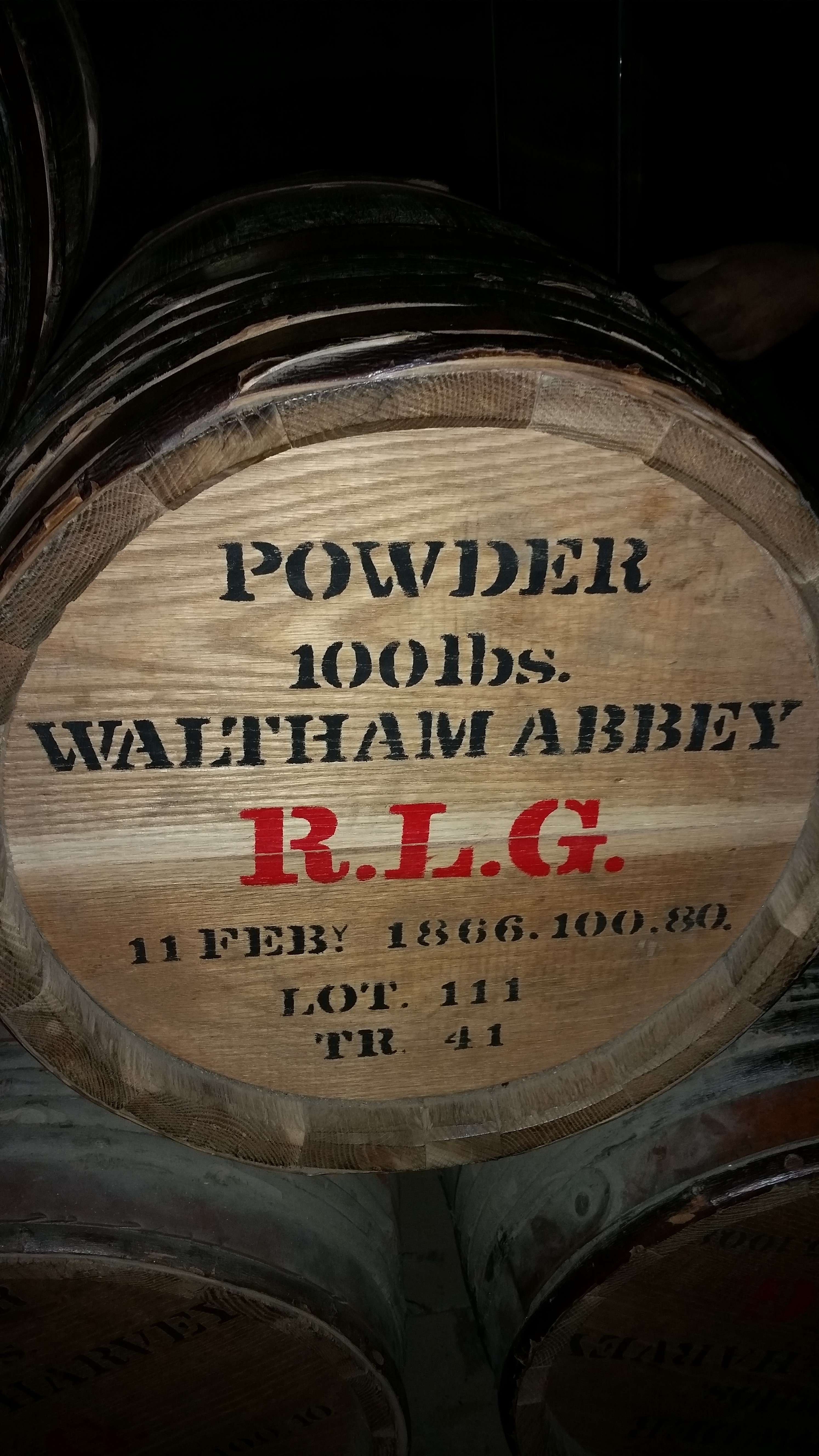 Waltham Abbey gunpowder barrel at the Citadel Hill (Fort George) gunpowder magazine